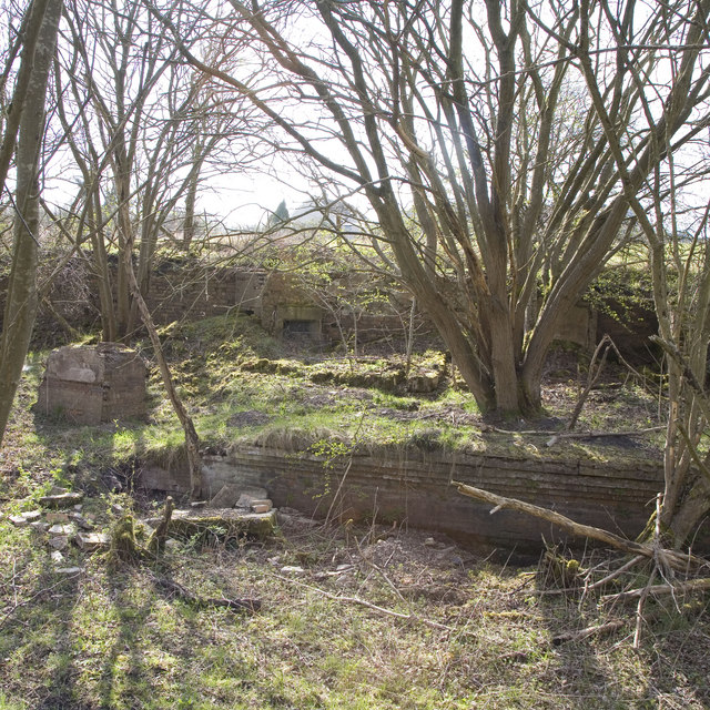 Remains of Tillietudlem station building Remains of the Tillietudlem station building on the down platform. The railway, part of the Caledonian Railway Coalburn branch, closed in 1968.